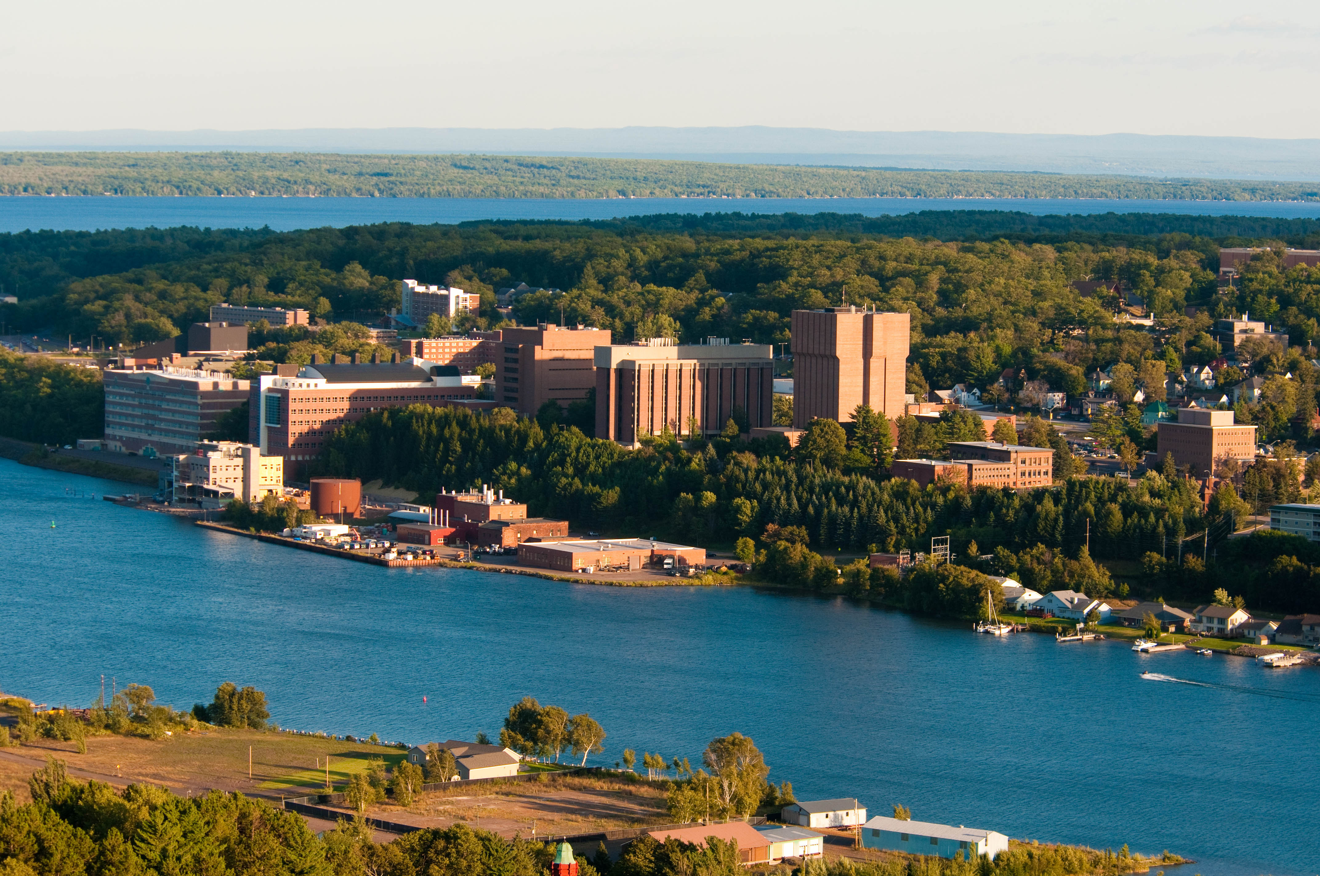 View of the Michigan Technological University campus from across Portage Lake at Mont Ripley Ski Area